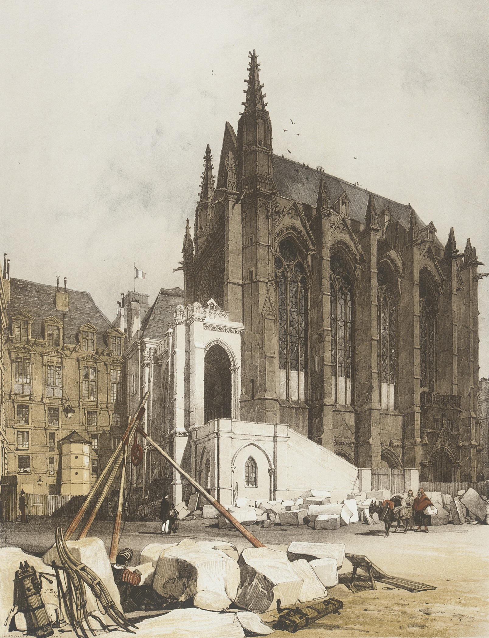 England, 1839 Portfolio: Picturesque Architecture in Paris/Ghent/Antwerp/Rouen/etc. Prints; lithographs Color lithograph Purchased with funds in honor of Ebria Feinblatt, provided by Mr. and Mrs. Irving Sulmeyer (M.84.160.2) Prints and Drawings